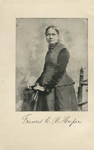 Frontispiece of Iola Leroy, or Shadows Uplifted, showing a picture of Frances Harper